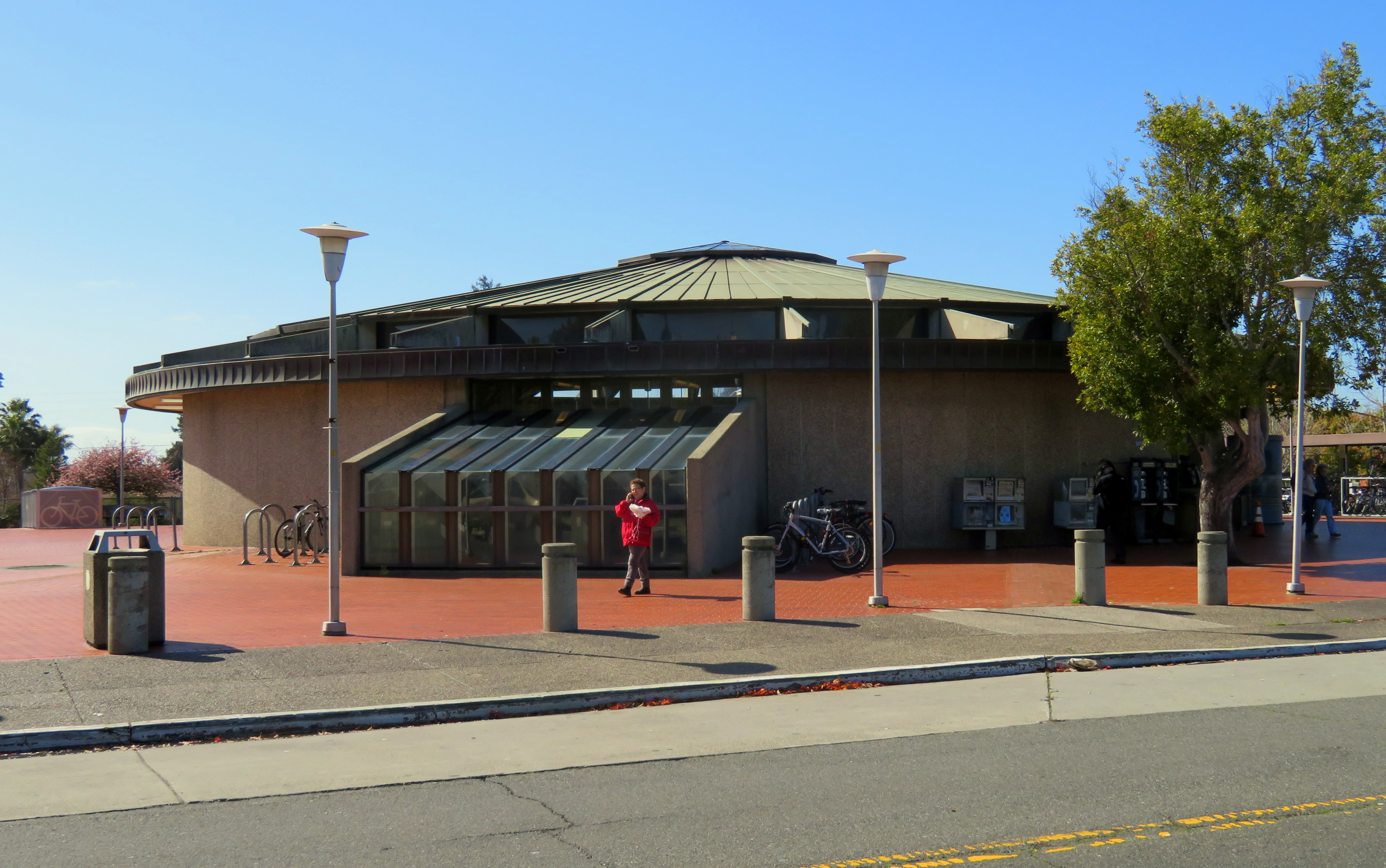 The east side of North Berkeley station in March 2018